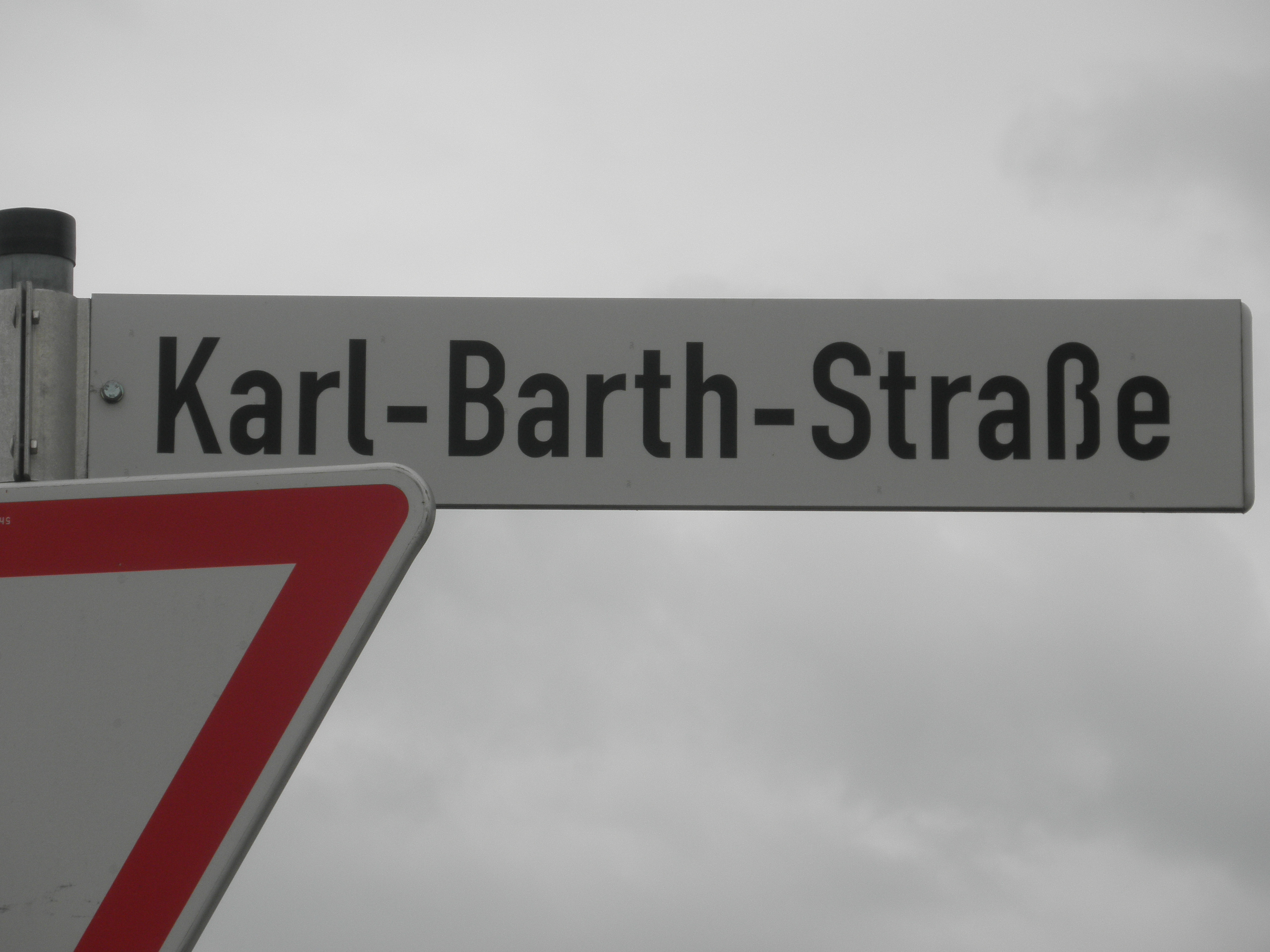 Leuna Karl-Barth-Street